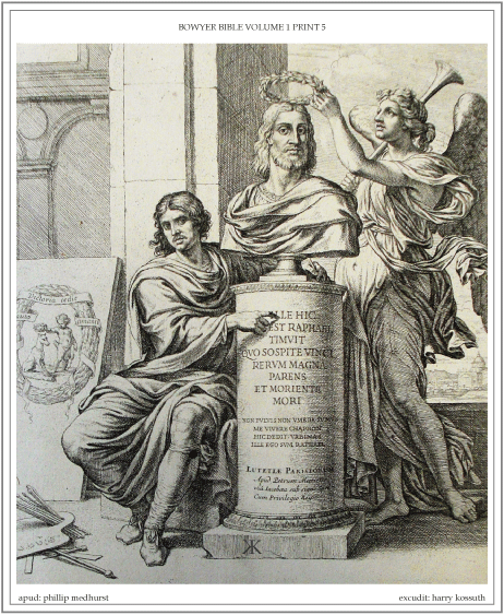 One of 6,330 prints in the 45 volumes of the Bowyer Bible in Bolton Museum, England. The six volumes of the Macklin Bible have been expanded by careful grangerisation.